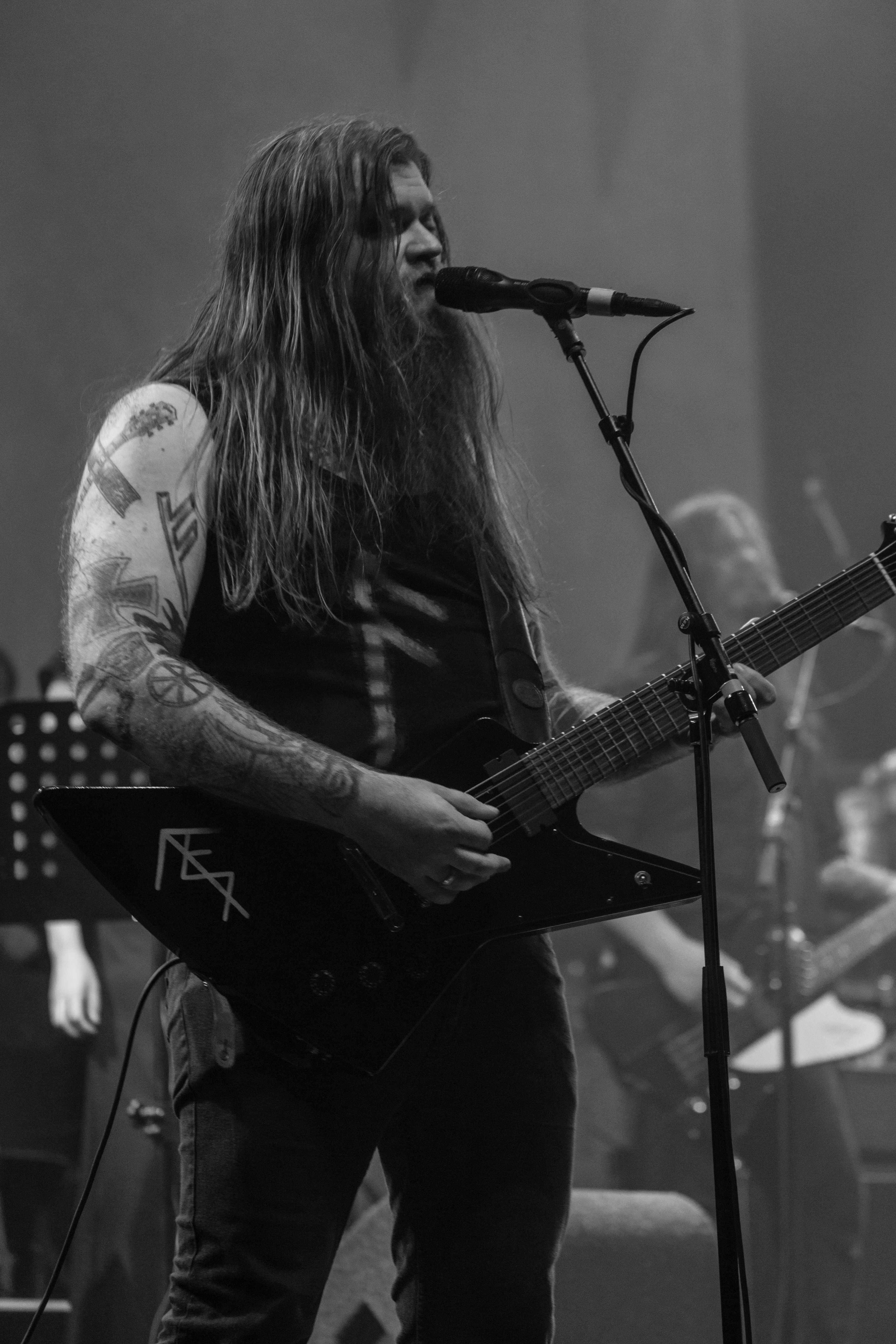 Skuggsja performing at Roadburn Festival, april 2015